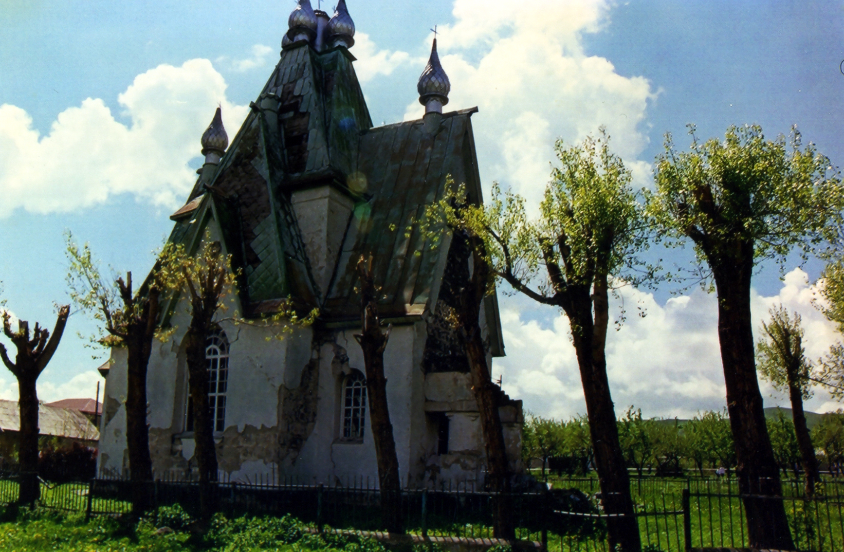 Russin church in Stepanavan